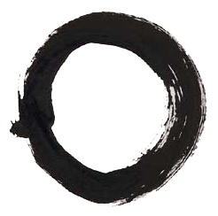 The enso, a symbol of Zen Buddhism